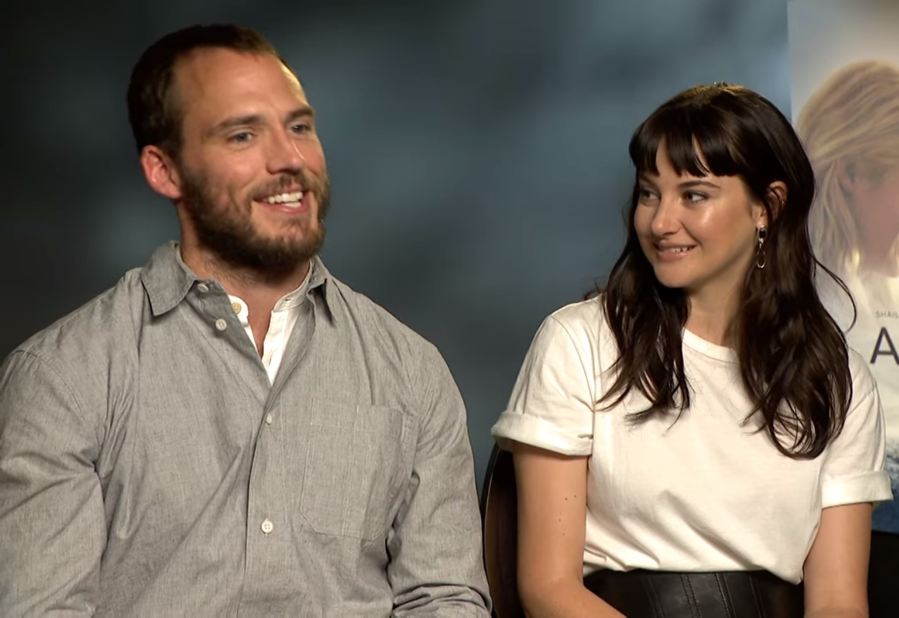 Stars of new ocean survival drama Adrift, Sam Claflin and Shailene Woodley, sit down with MTV to reveal their hilarious (and totally gross) fave memories of each other, and the deleted scenes you WON’T see in cinemas. WARNING: Don’t watch while eating.